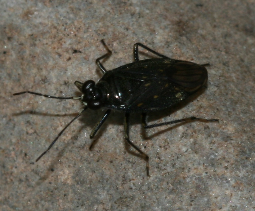 Cockburn Mill Ford, Berwickshire, Scotland